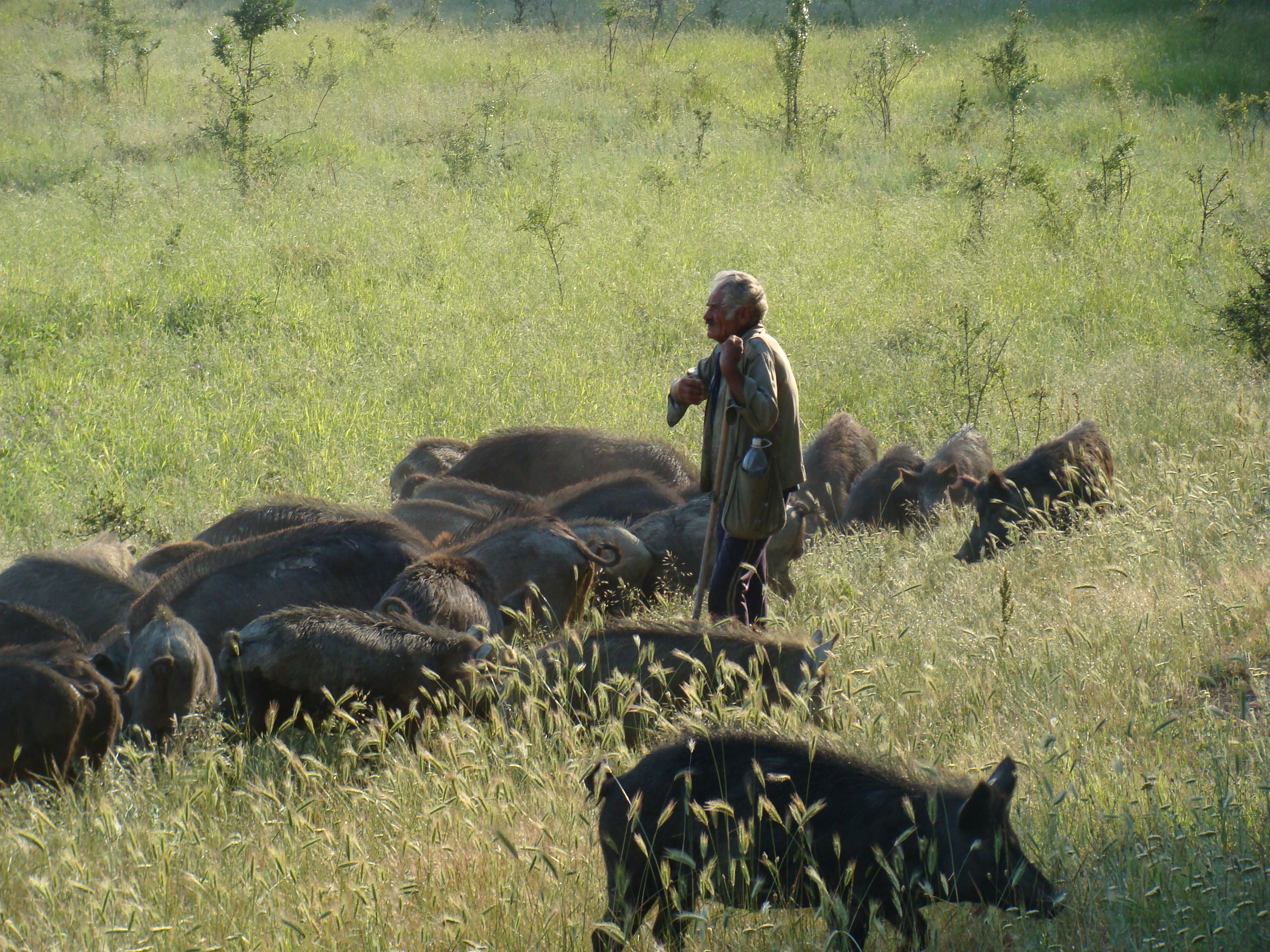 East Balkan Herd